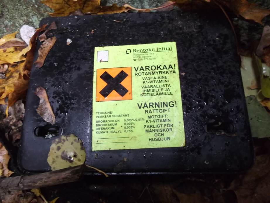 Ratpoison Bait Box